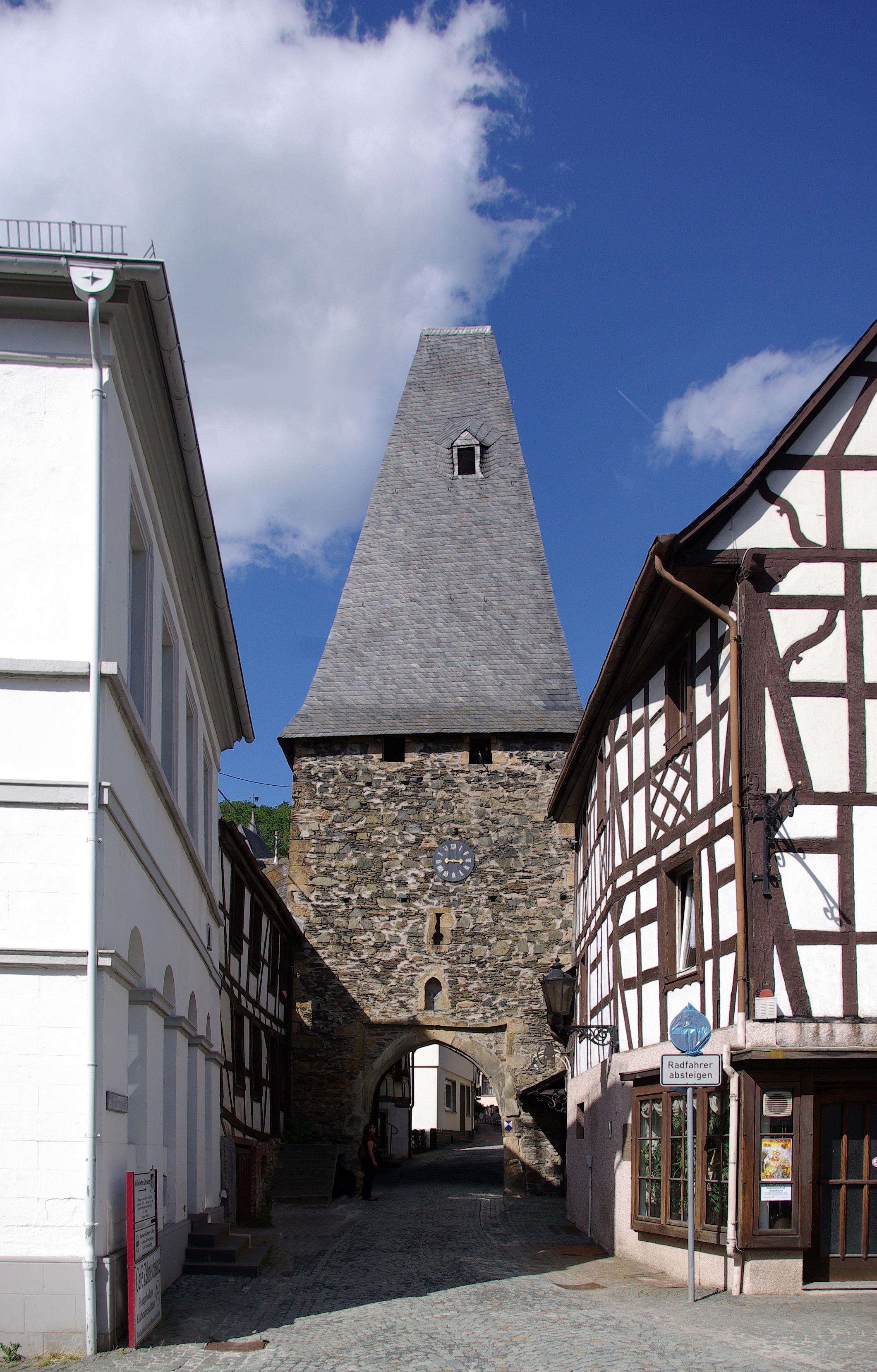 Germany, Herrstein, Clock tower